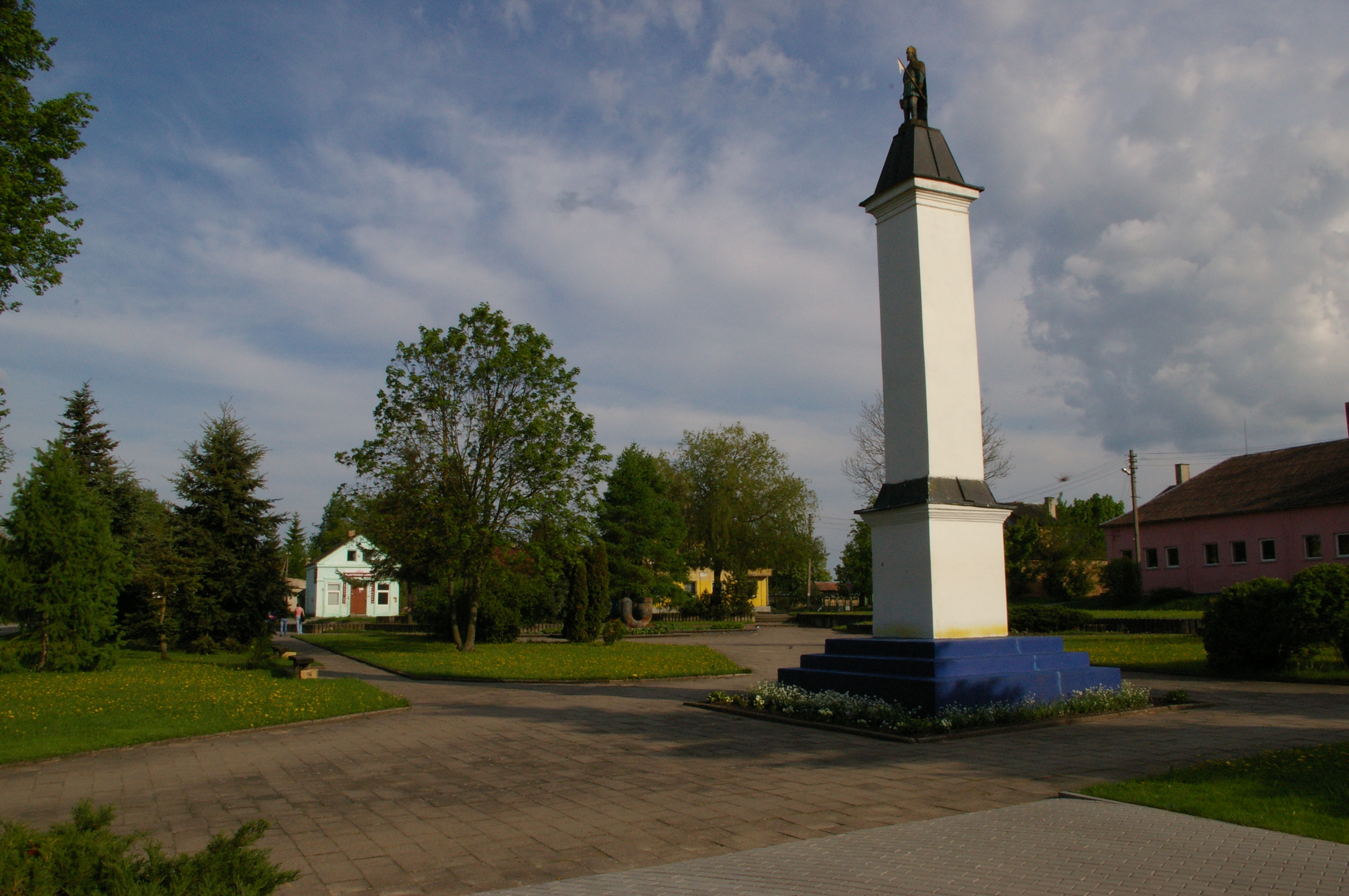 Raguva central square.